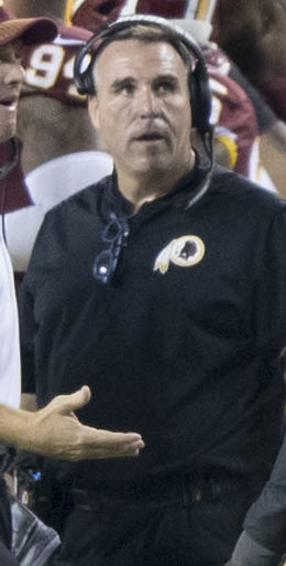 Raiders at Redskins 9/24/17